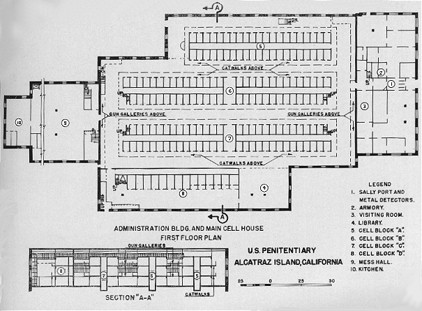 Alcatraz cellhouse map, focusing on cellblocks A-D and labeling other features such as the mess hall, kitchen, library, visiting room, and other prison features.